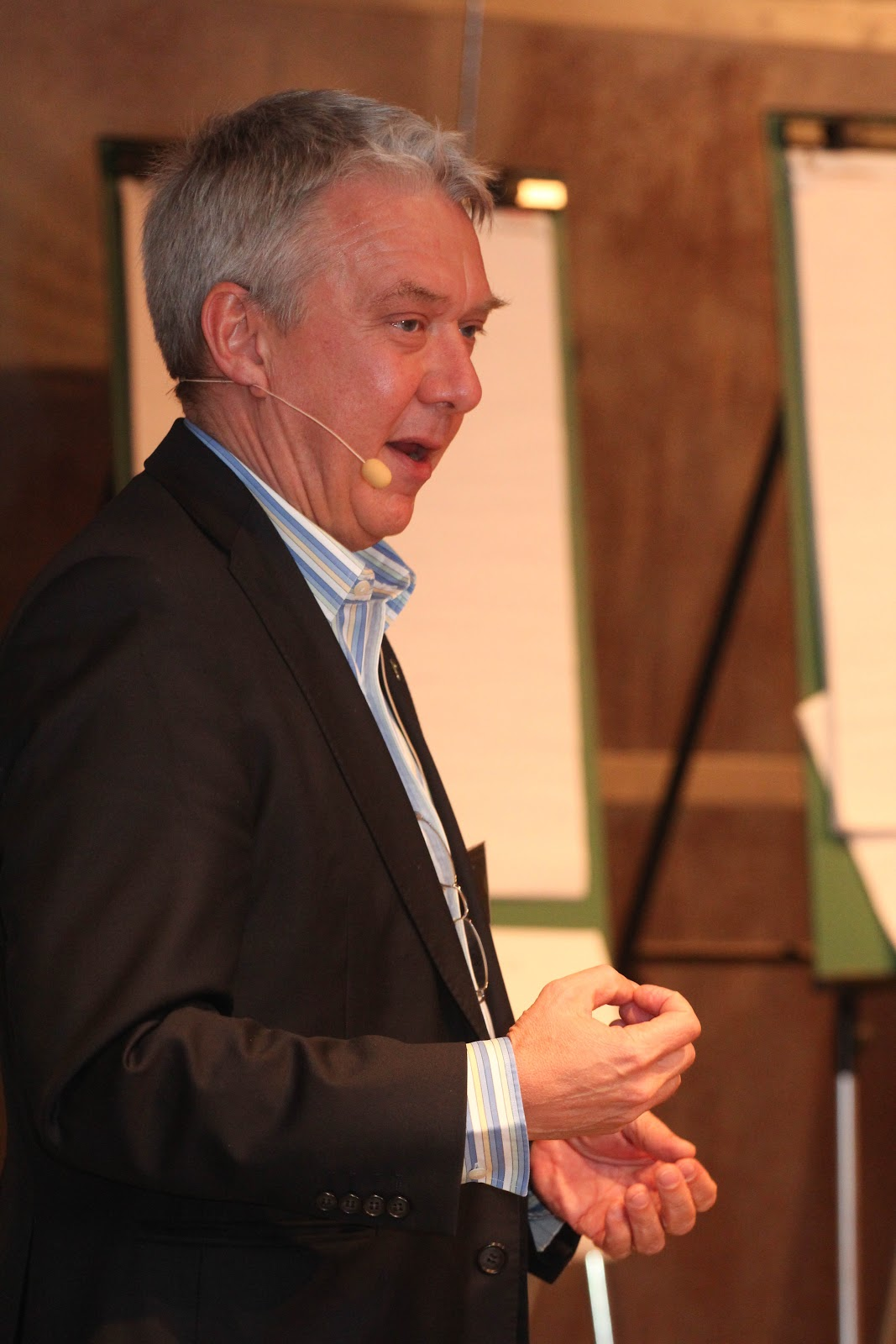 EU parlamentarian Christian Engström (PP) talks at Young Pirates Sweden's political conference in Norrköping, November 2012.